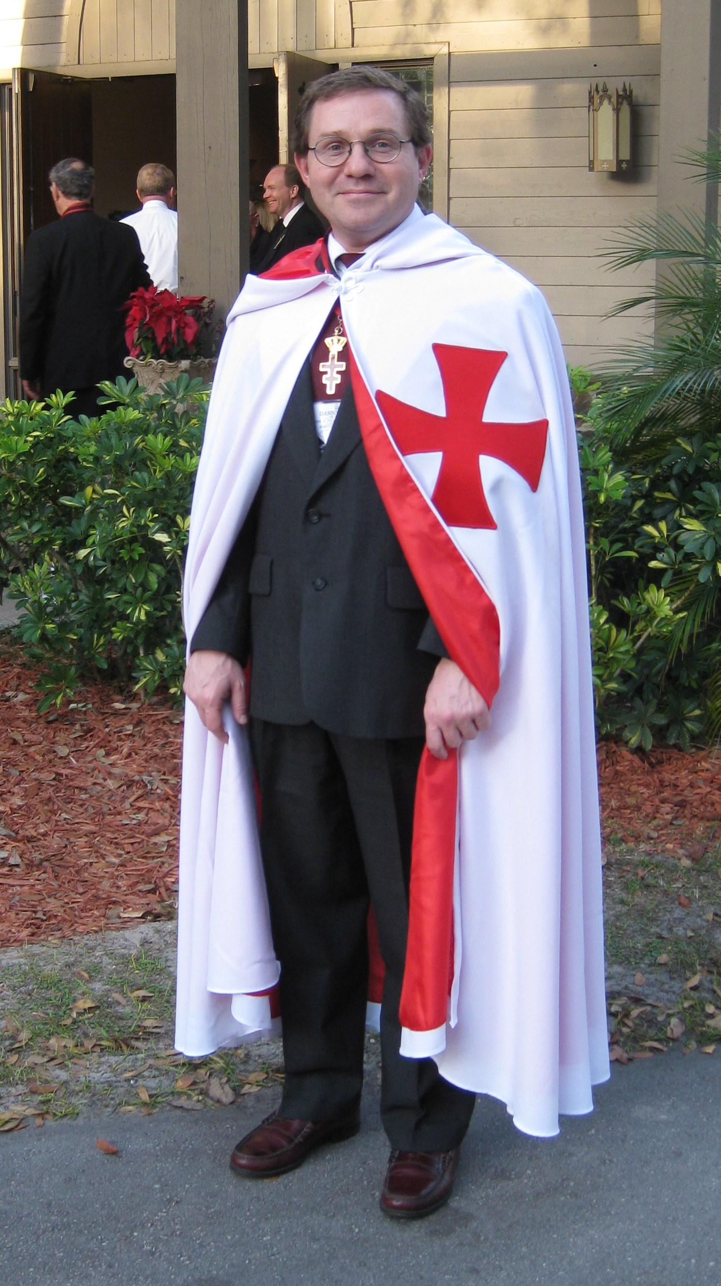 Induction into Knights Templar (Freemasonry)